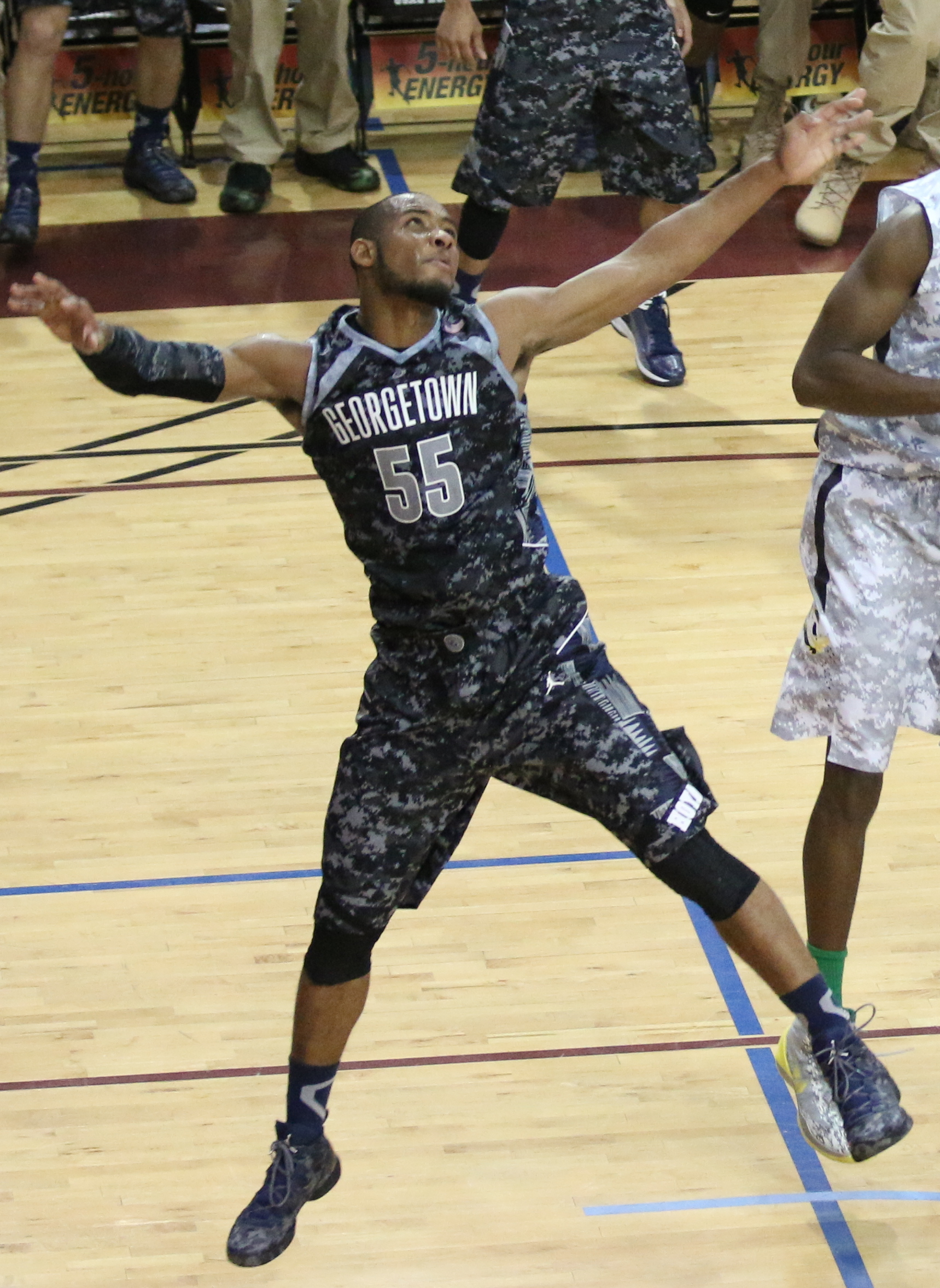 ESPN Armed Forces Classic NCAA Men's Basketball - U.S. Army Garrison Humphreys, South Korea - 9 Nov. 2013 photo by Richard Kim